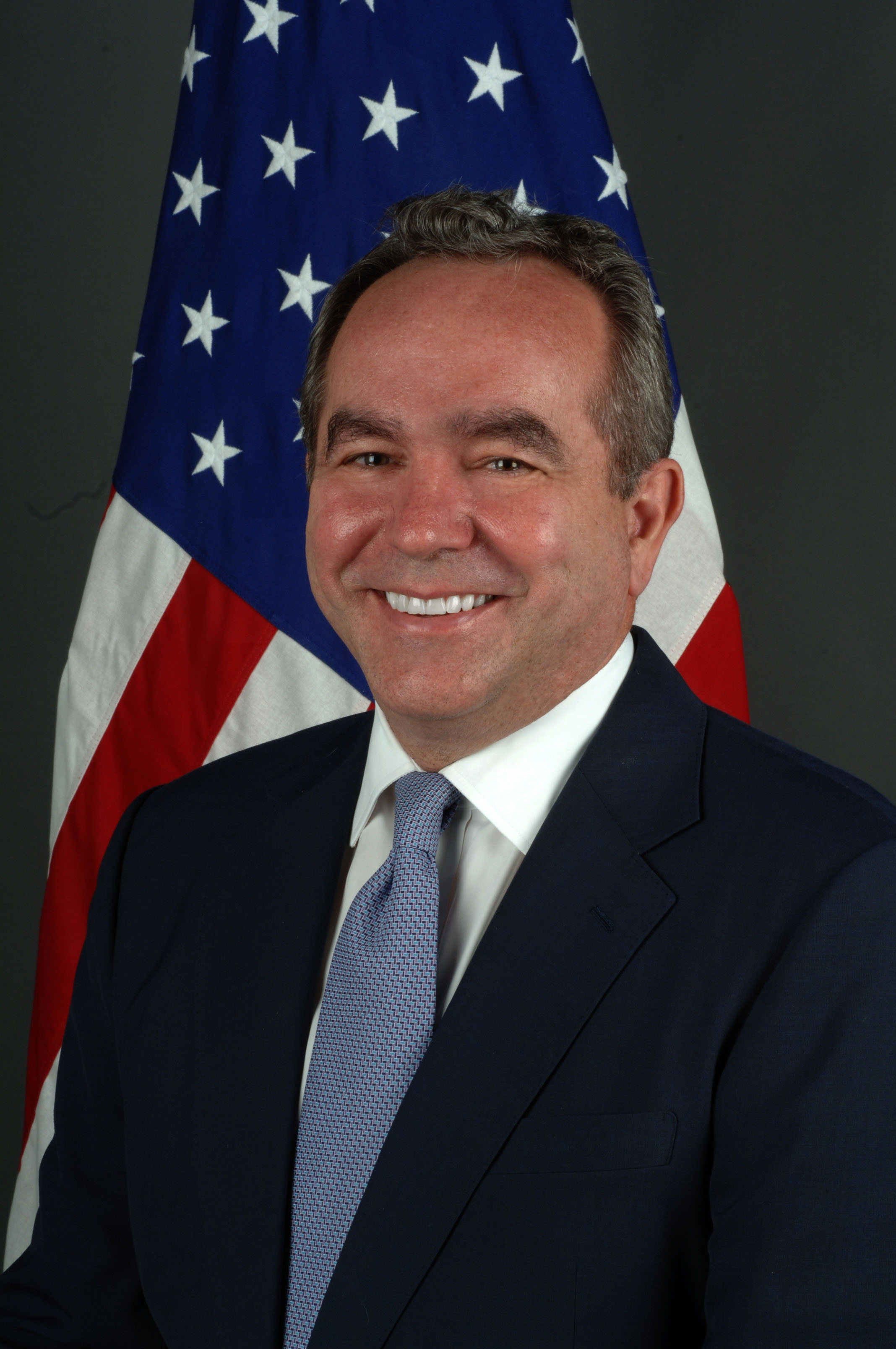 Kurt M. Campbell, Assistant Secretary of State for East Asian and Pacific Affairs